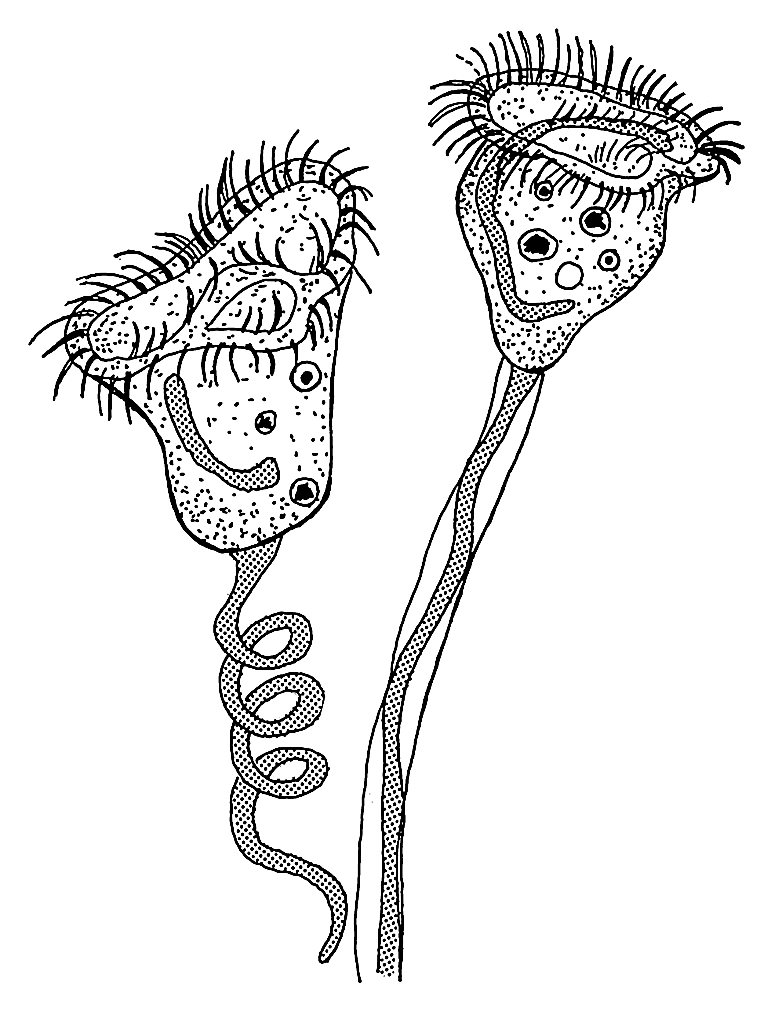 Line art drawing of a vorticella.